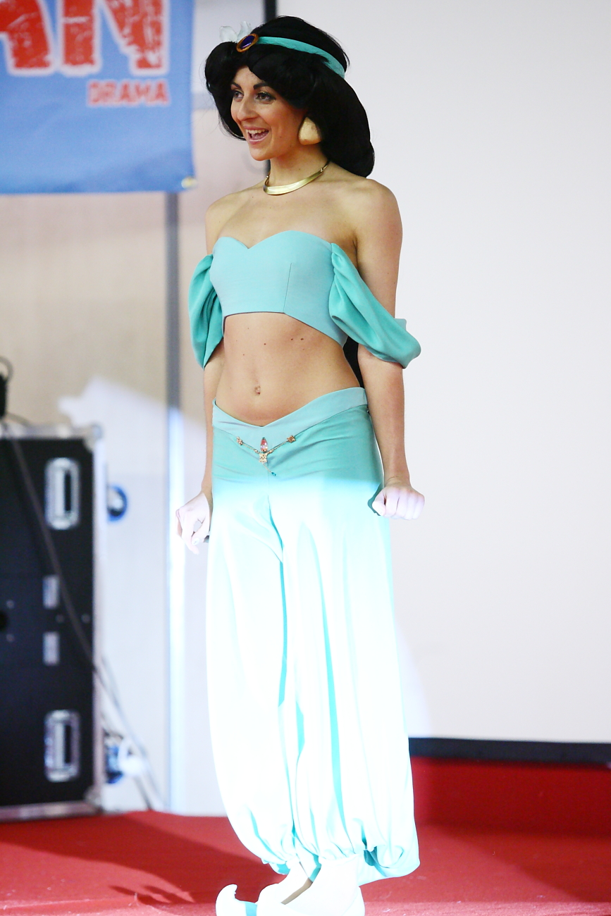 Paris Manga 9, February 2010, Parc des expositions de la porte de Versailles.